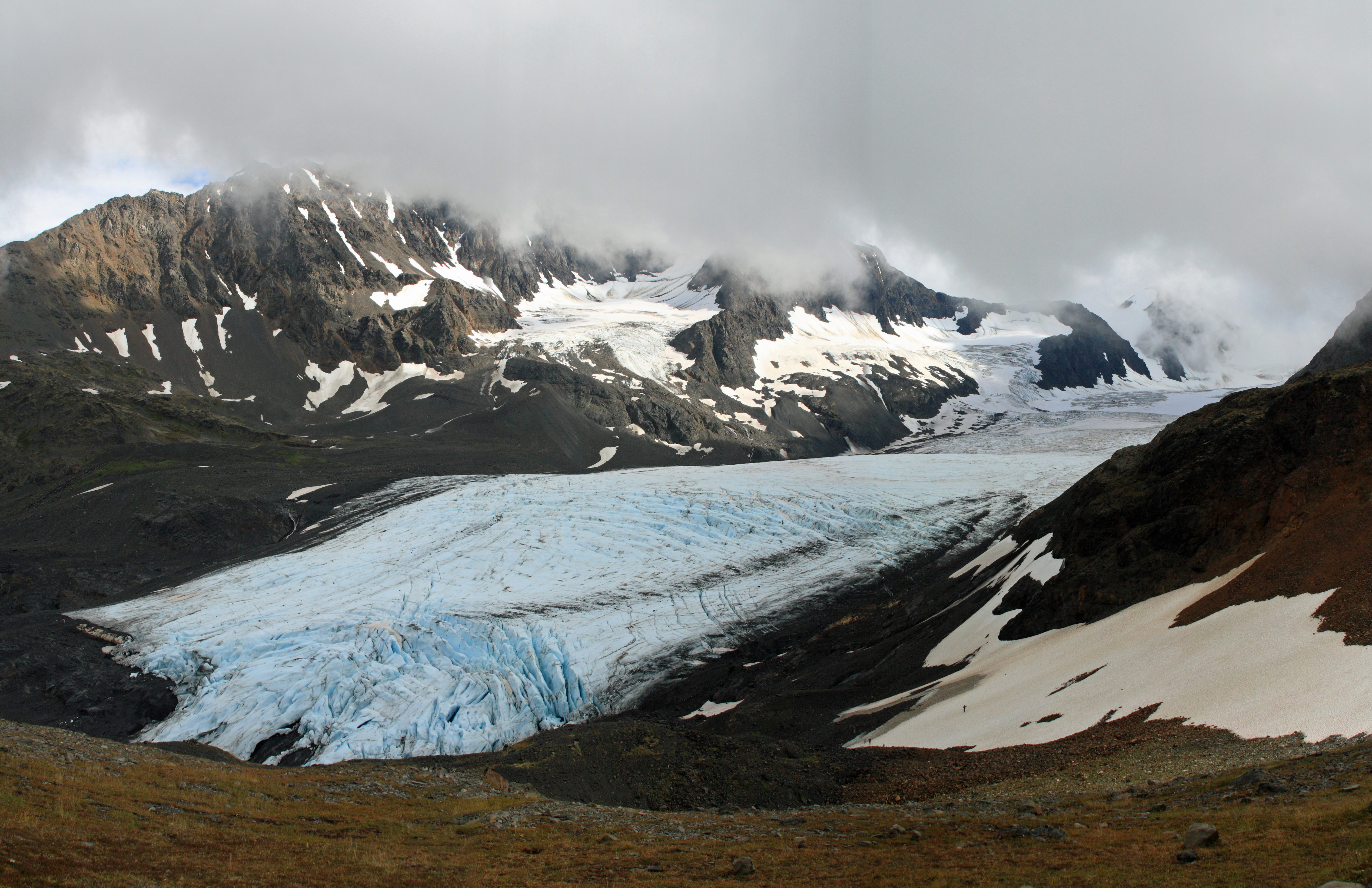 There are no two ways about it, the summer of 2010 in South Central Alaska absolutely sucked weather-wise. We barely got any hikes in. One of my favorite hikes in the world is the trip up to Crow Creek Pass. We tried it a few times in early summer but turned around due to the weather; come the end of August we decided to just do it. We did not have high hopes when we started from the trailhead - the pass was completely fogged it, it was windy and cold but we kept plugging away. Almost at the same time we hit the pass the clouds lifted for about 10 minutes, I took some quick photos, we grabbed some lunch, and then were in almost whiteout conditions. We beat a quick retreat down the trail and ended up shooting photos of the creek near the parking lot which was a raging torrent. Hopefully better luck in 2011!